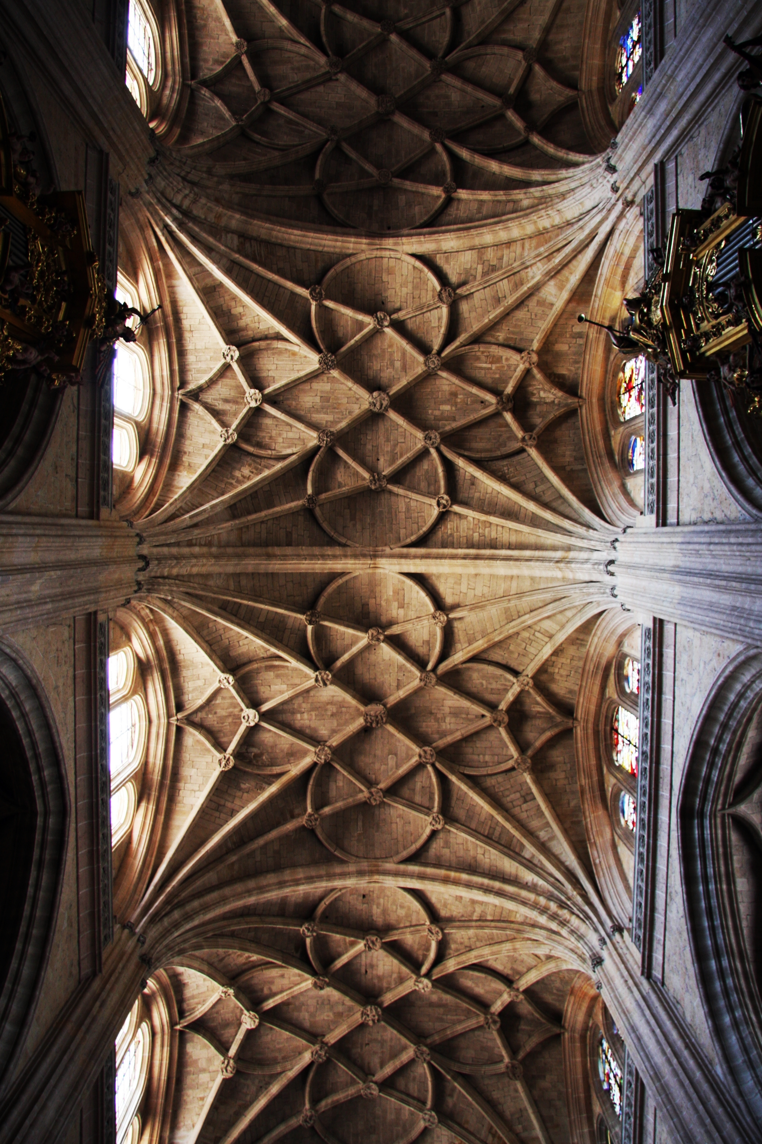 Among the most glorious cathedrals in the world, that of Segovia renders faith limitless.